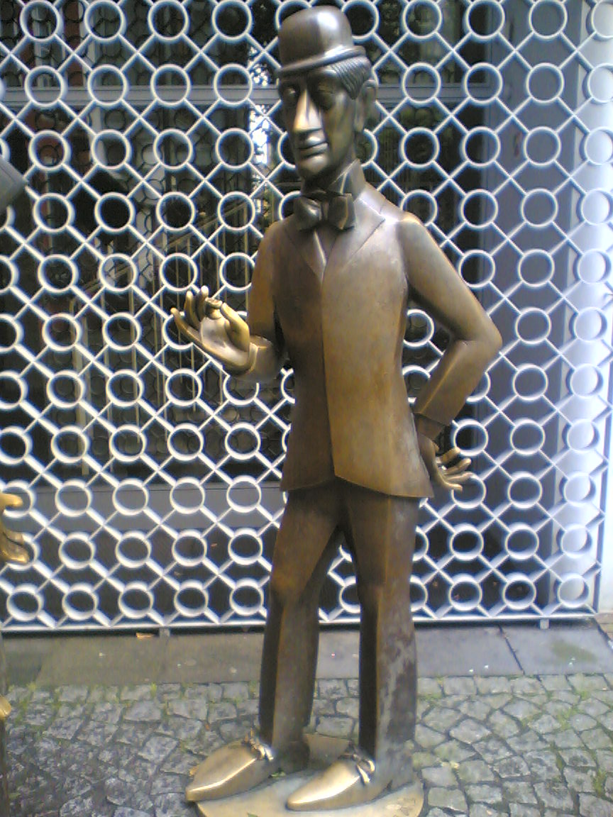 Schäl - Memorial in the old town of Cologne